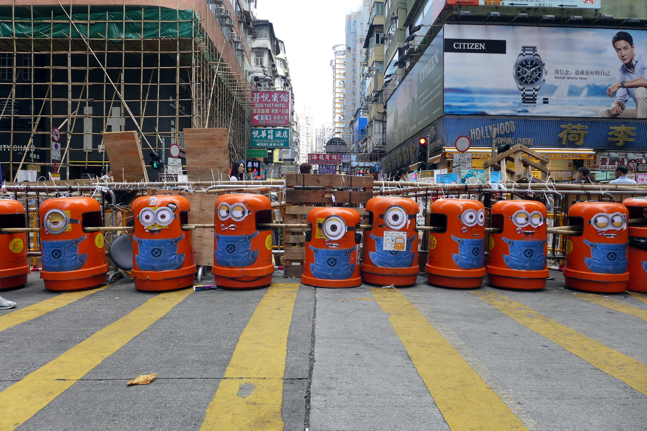 Shantung Street Minion Rubbish Bin Roadblock